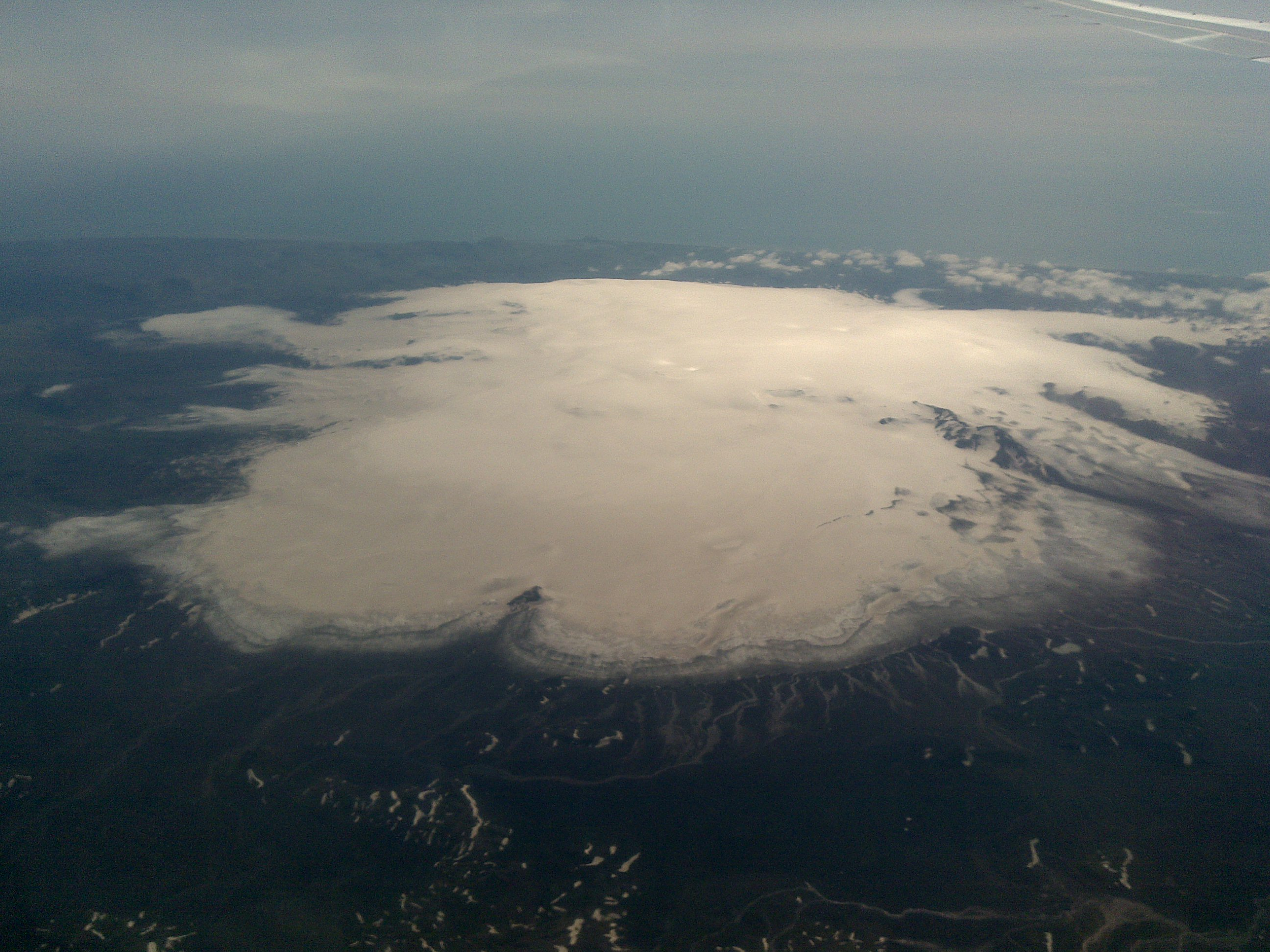 Mýrdalsjökull, glacier of southern Iceland. Seen from the north, mid-July.